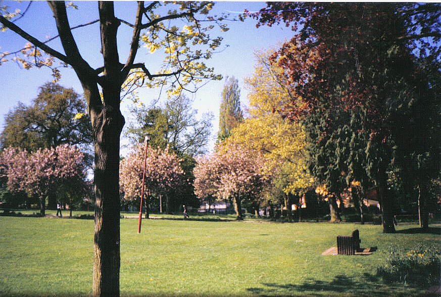 People's Park, Banbury, Oxfordshire in 2001.